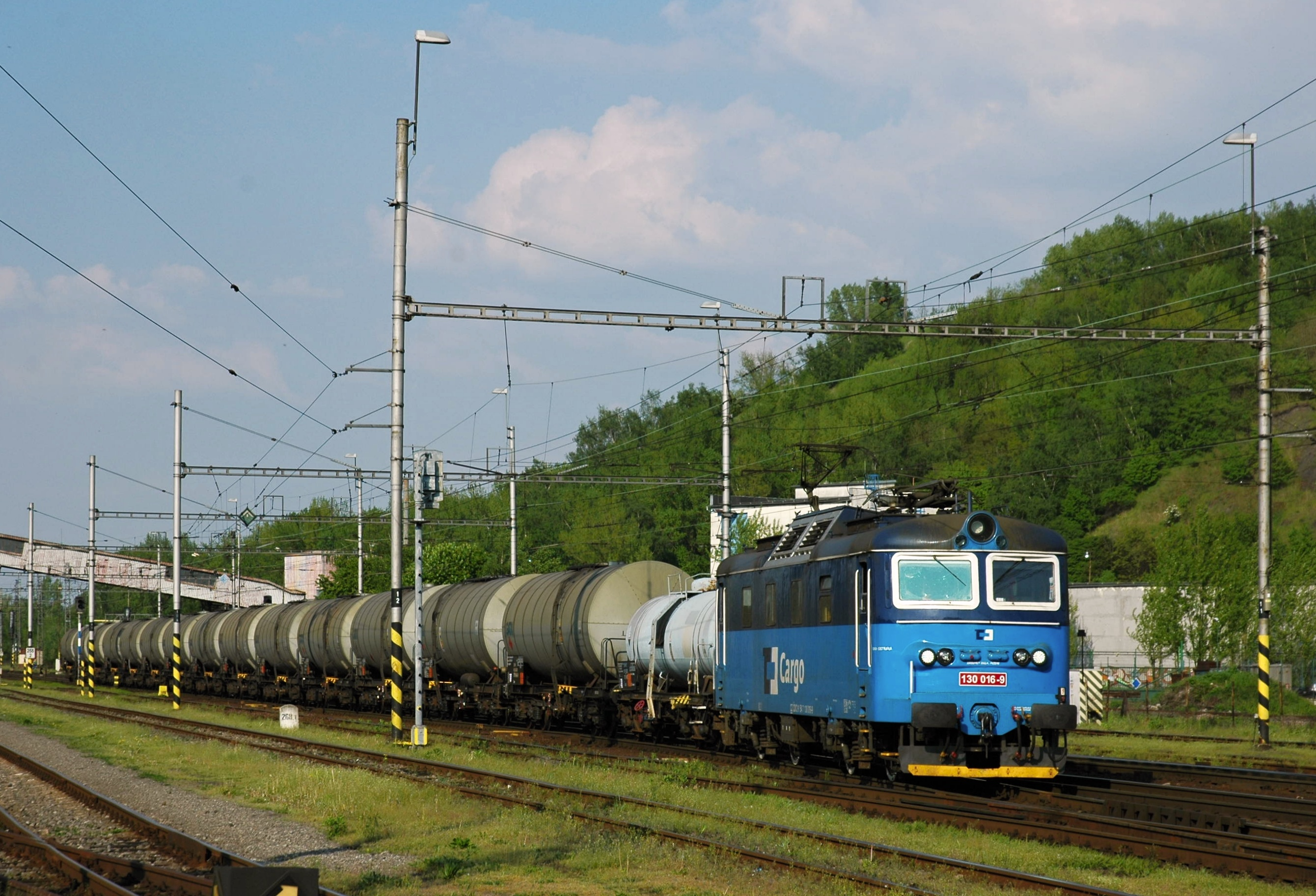 Locomotive 130.016 of ČD Cargo with a freight train from Sławięcice (PL) to Ostrava hlavní nádraží (CZ) is arriving to the destination. In the train there is one tank wagon with sulphur acid (the first one) and tank wagons with benzene from the Petrochemia-Blachownia chemical plant to the BorsodChem MCHZ chemical plant